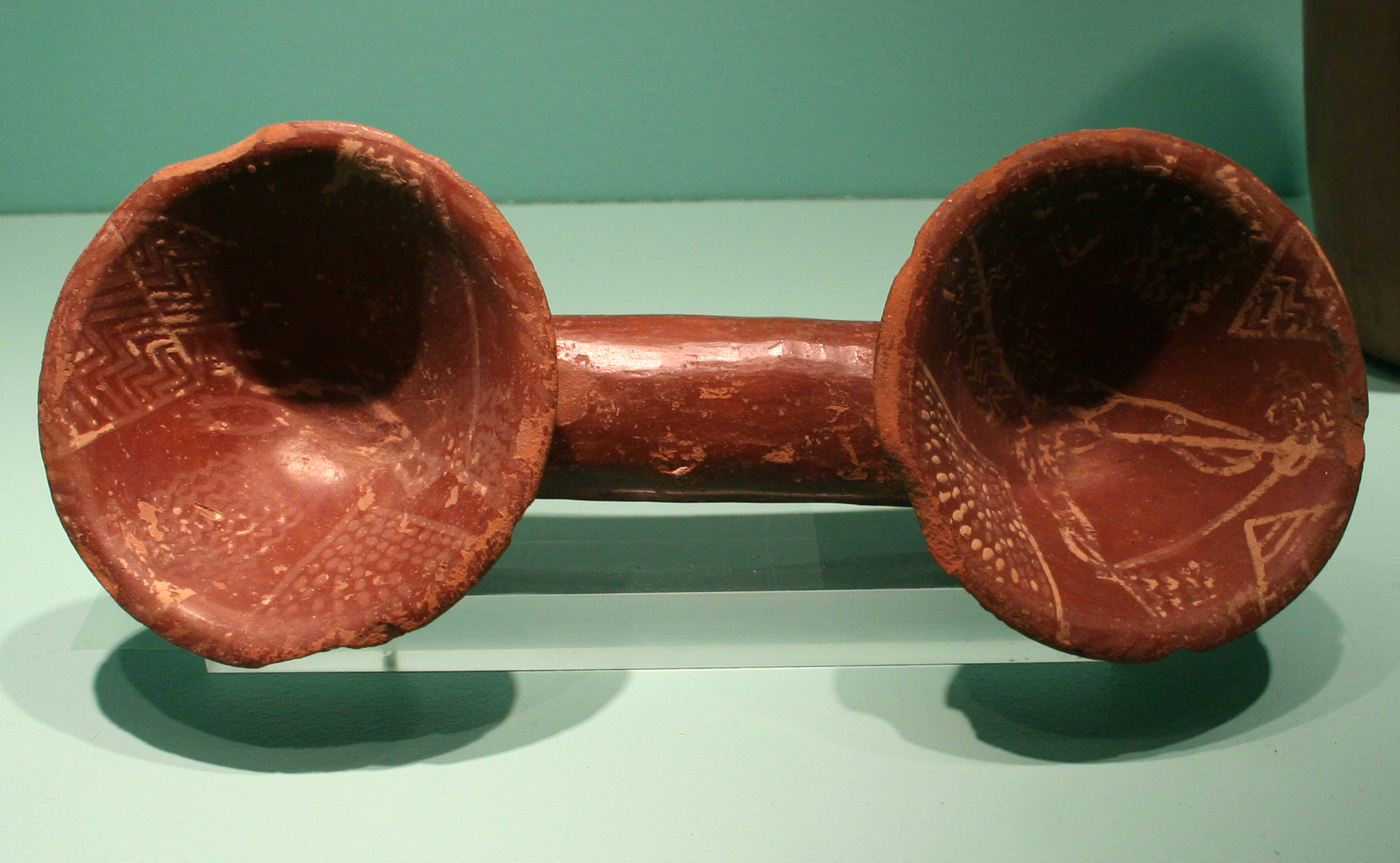 Roemer- und Pelizaeus-Museum, Hildesheim